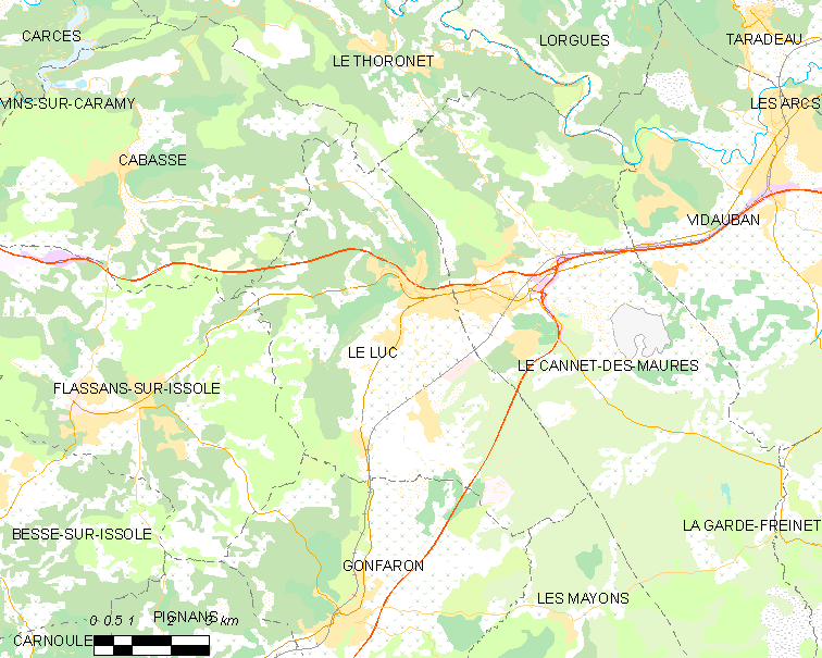 Map of French municipality Le Luc